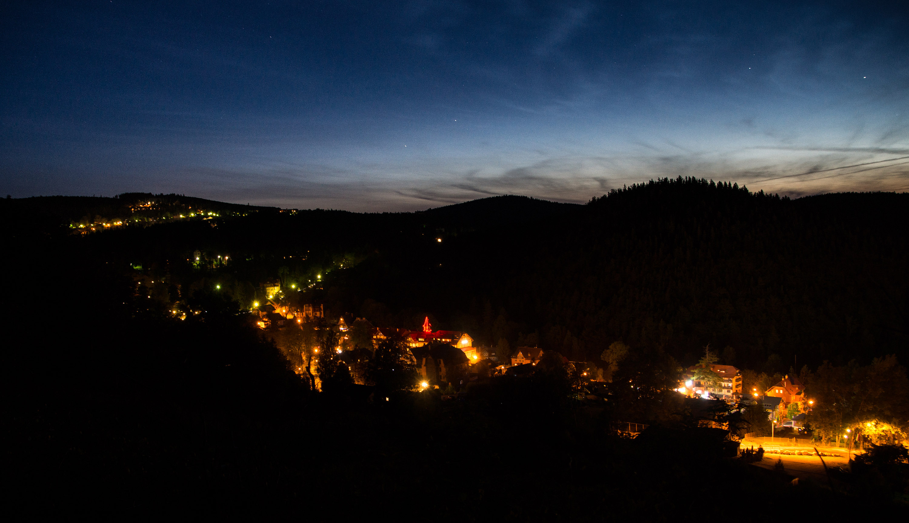 Night time Karpacz panorama - view from northen hill slope towards south-western part of the city.